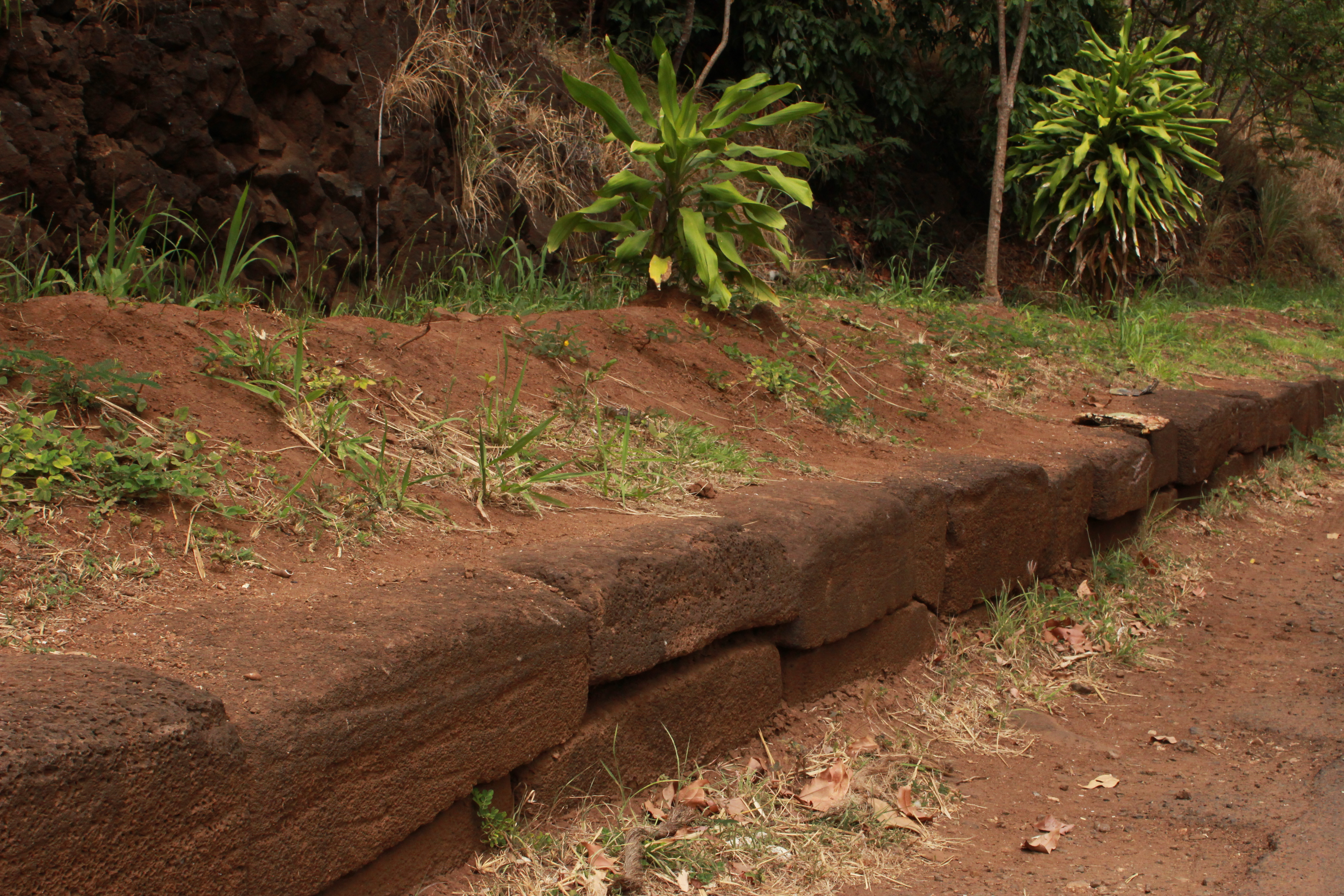 The worked facing stones of Kikiaola purportedly created by the first wave of Hawaiian settlers prior to 1000 CE who are now called the Menehune, hence the common name for this irrigation channel being the "Menehune Ditch".